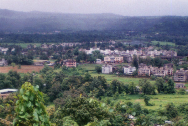 The city of chiplun from a height Source: Taken in 2003